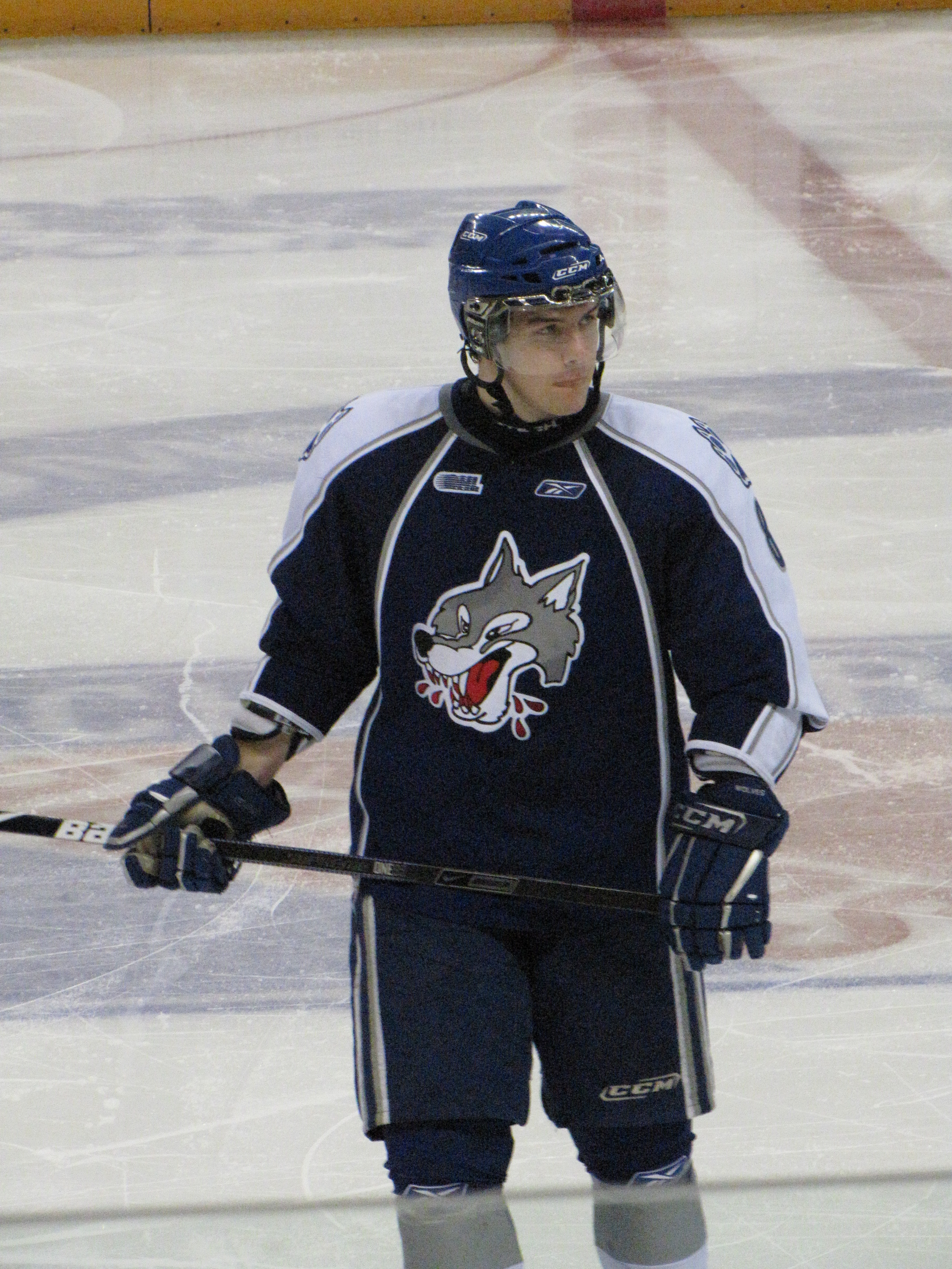 Jake Cardwell of the Sudbury Wolves, wearing the away uniform